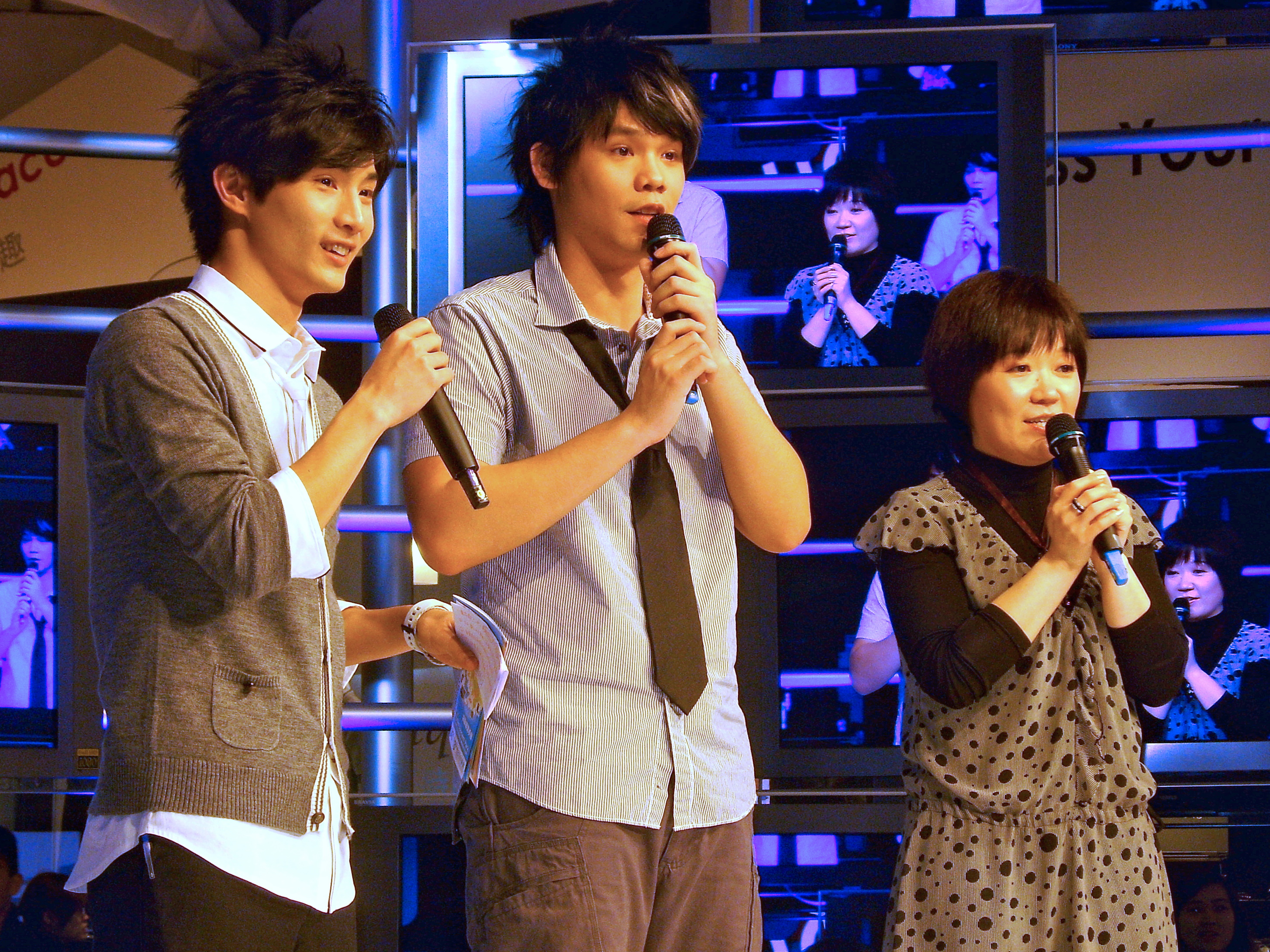 Sony Fair 2008: The Mini Concert.中文（台灣）: 2008年「Sony Fair @ Taiwan 影音嘉年華」活動中的「Sony concert迷你演唱會」，翁瑞迪（左）、盧學叡（中）出席。